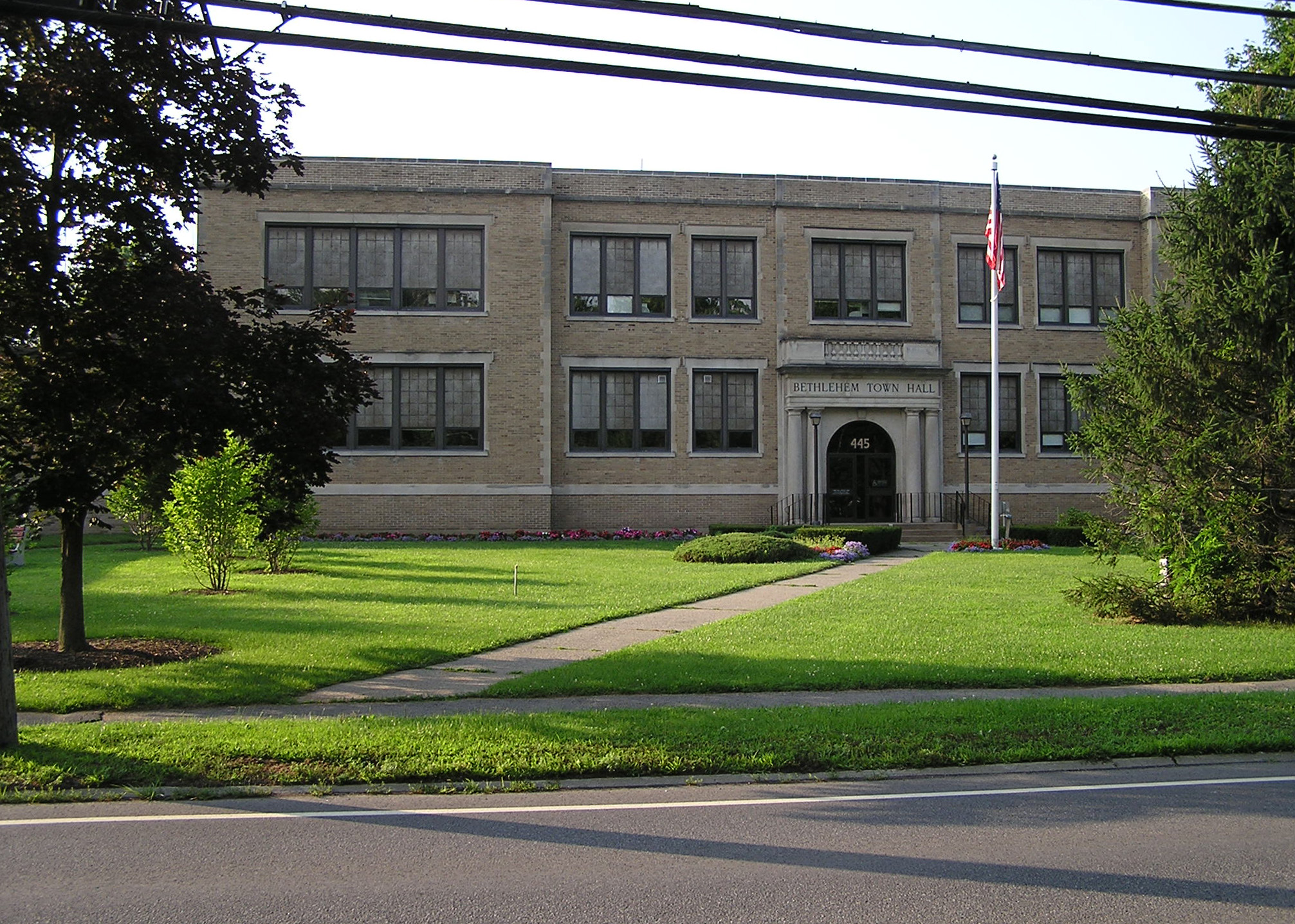 Bethlehem Town Hall in Bethlehem, New York, United States